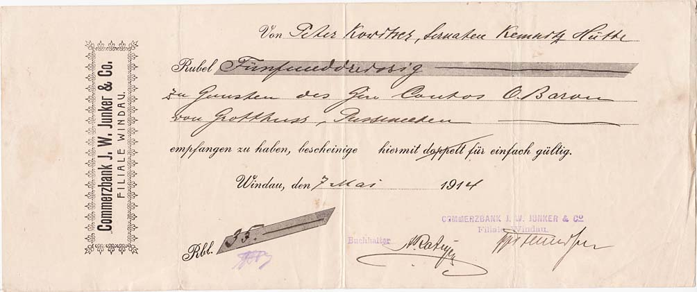 Commercial Joint Stock Bank I. W. Junker & Co., Windau (now Ventspils) Branch (Kurland Gubernya). Check / Promissory Note 35 RUBLES 1914. F/VF. Uniface. Black print on paper with watermark. Size 293 x 121 mm.